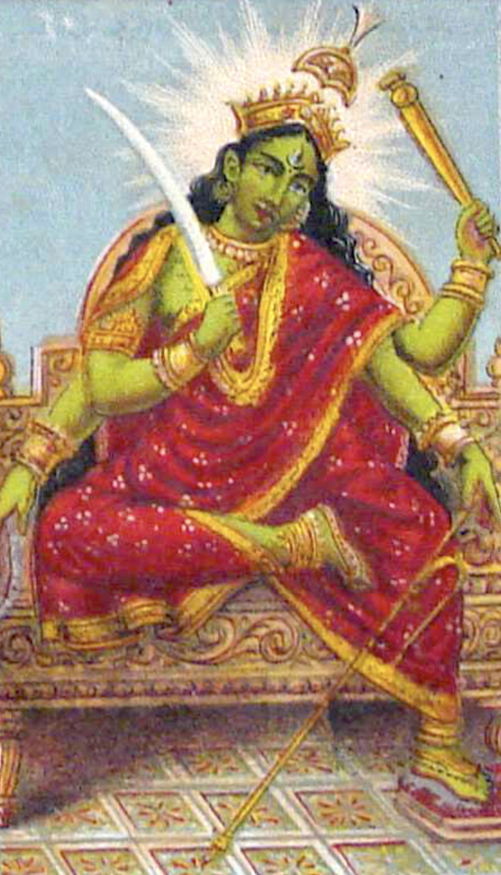 "Album of popular prints mounted on cloth pages. Colour lithograph, lettered, inscribed and numbered 37. The print is subdivided into ten equal parts, each representing one of the ten aspects of Devi, the divine mother. Each image is identified with a Bengali inscription, and the goddesses represented are: Kali, Tara, Shodashi, Bhuvaneshvari, Bhairavi, Chhinnamasta, Dhumavati, Bagalamukhi, Matangi, and Kamala. 2003,1022,0.37, AN804243 "